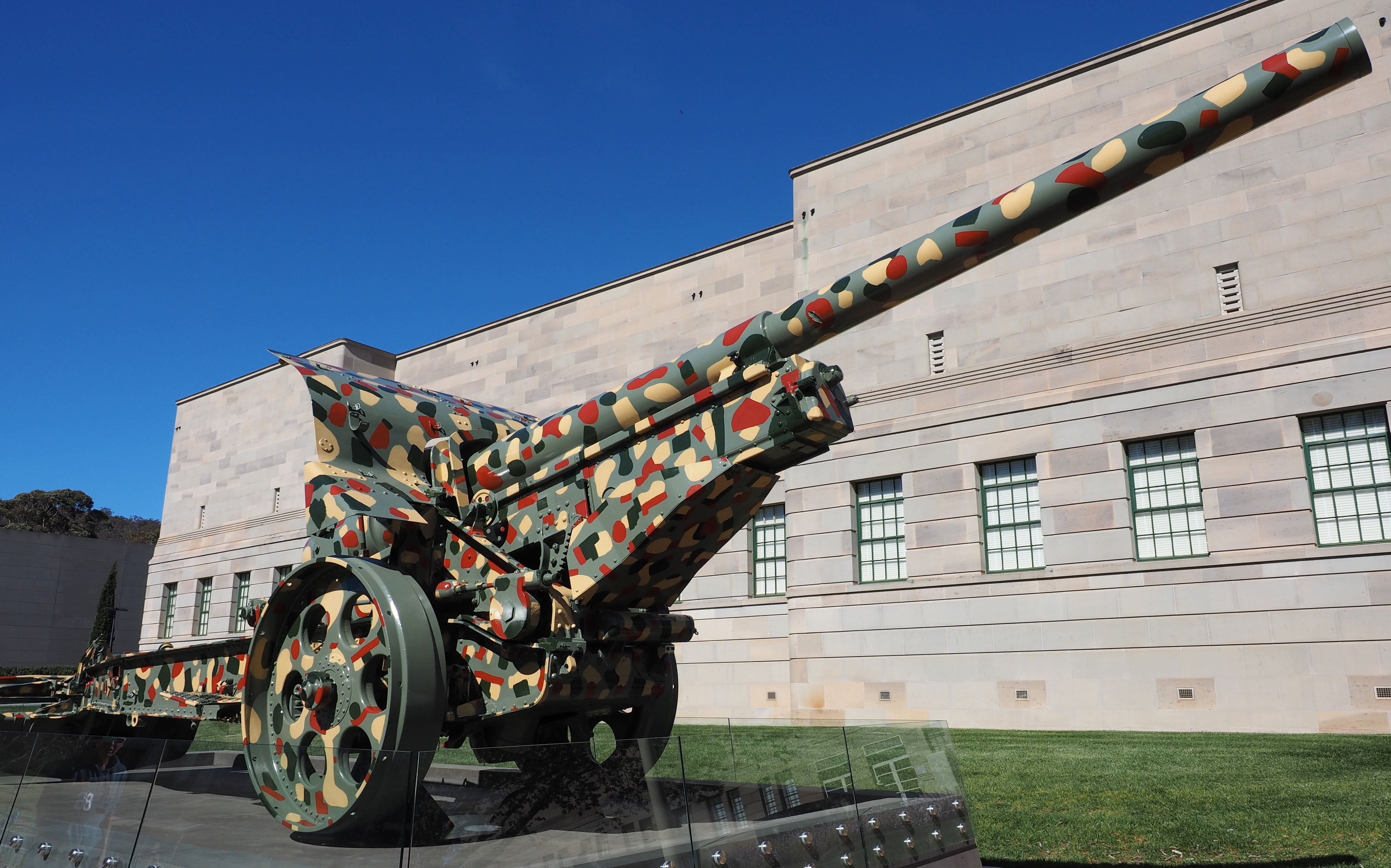 A 15 cm Kanone 16 on display outside the Australian War Memorial. This gun was captured by the Australian 45th Battalion on 8 August 1918, and was restored to its wartime appearance in the 2010s.